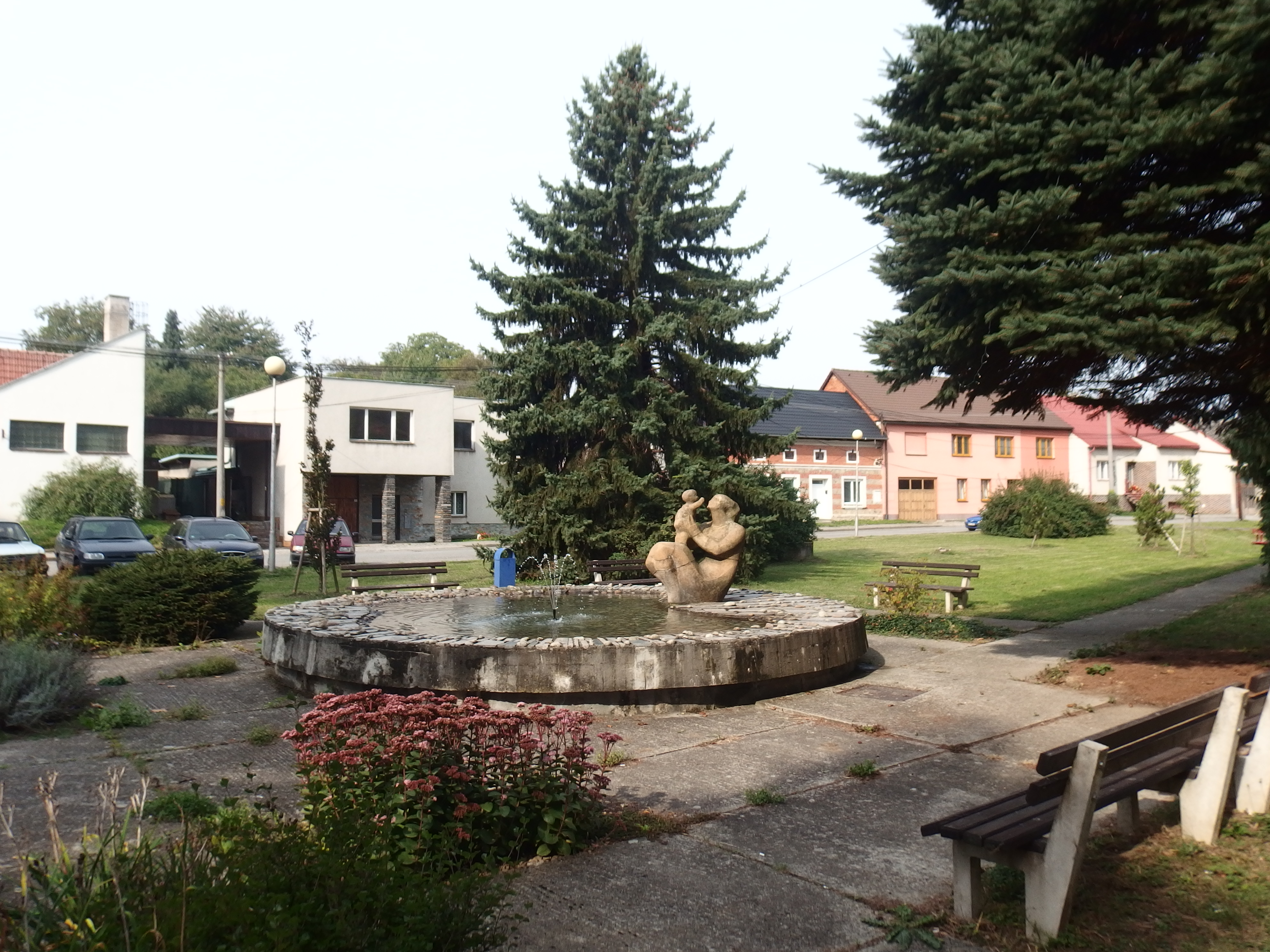 Zlín, Czech Republic, part Lhotka.